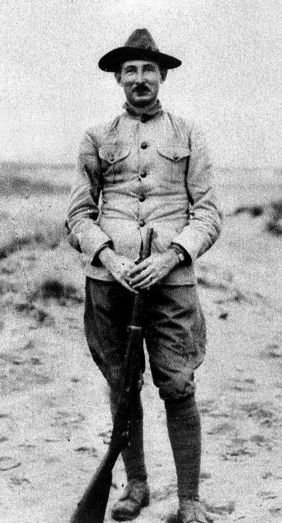 Sport, Shooting, 1920 Olympic Games, Antwerp, Belgium, Individual Military Rifle, (3,000 metres) standing, Carl Osborn U,S,A,the Gold medal winner